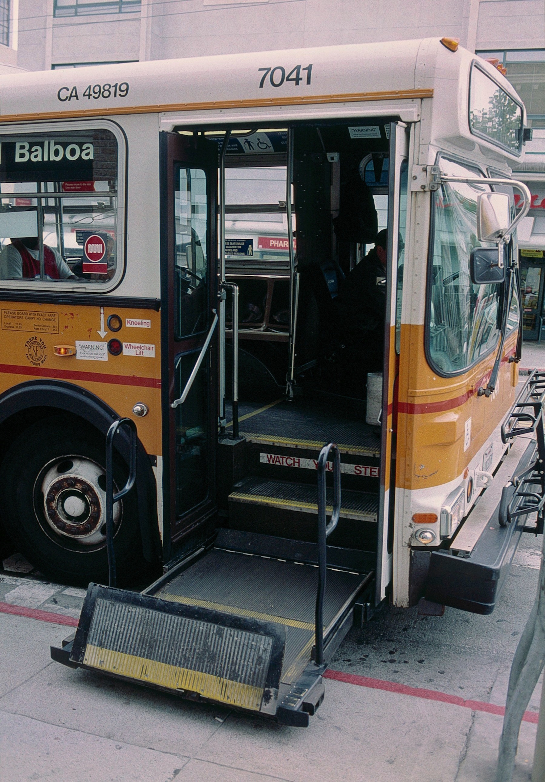 Wheelchair lift being operated in the front door of San Francisco Muni trolleybus 7041, a 1993 New Flyer E60.